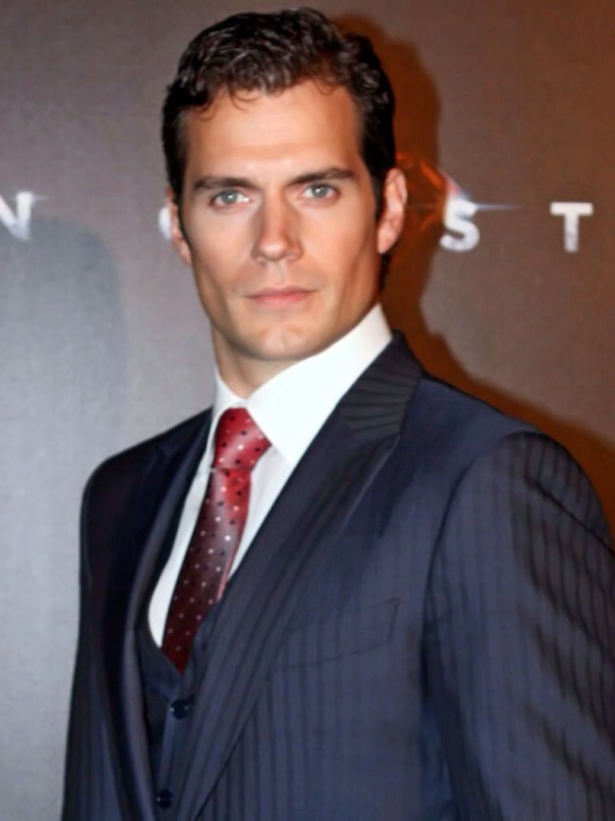 Henry Cavill at the Man of Steel red carpet movie premiere, Sydney 2013.